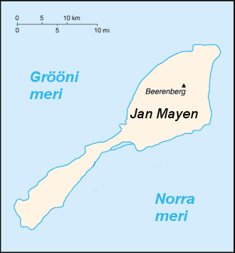 Map in Estonian of Jan Mayen